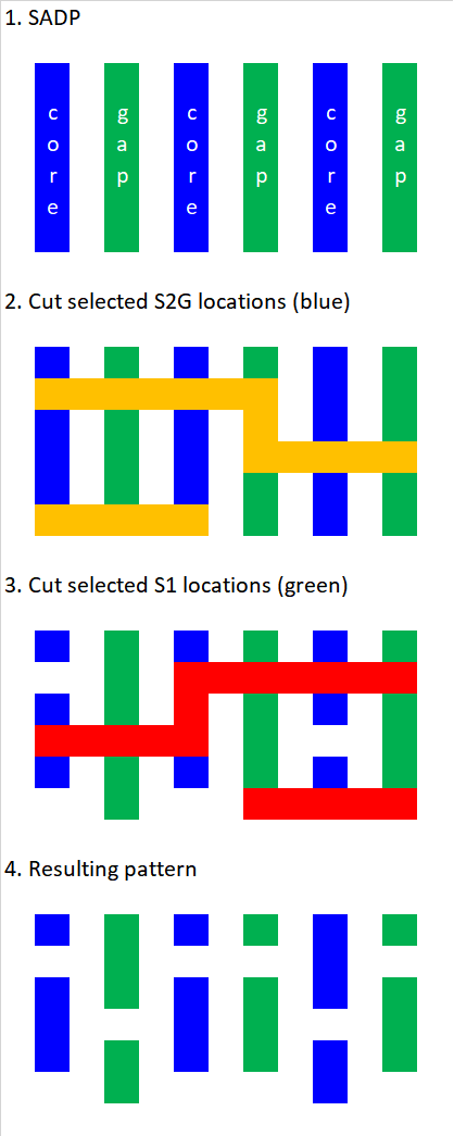 Self-aligned blocking makes use of lines of different materials which are cut by separate etches. The selective etches allow the lines to cross lines of different materials. The loop end cut/trim is at the right. Ref.: N. Mohanty et al., Proc. SPIE 10147, 1014704 (2017). Here, the "core" features are those features which support the final spacer, while the "gap" features are those which located in the remaining gaps between final spacers.